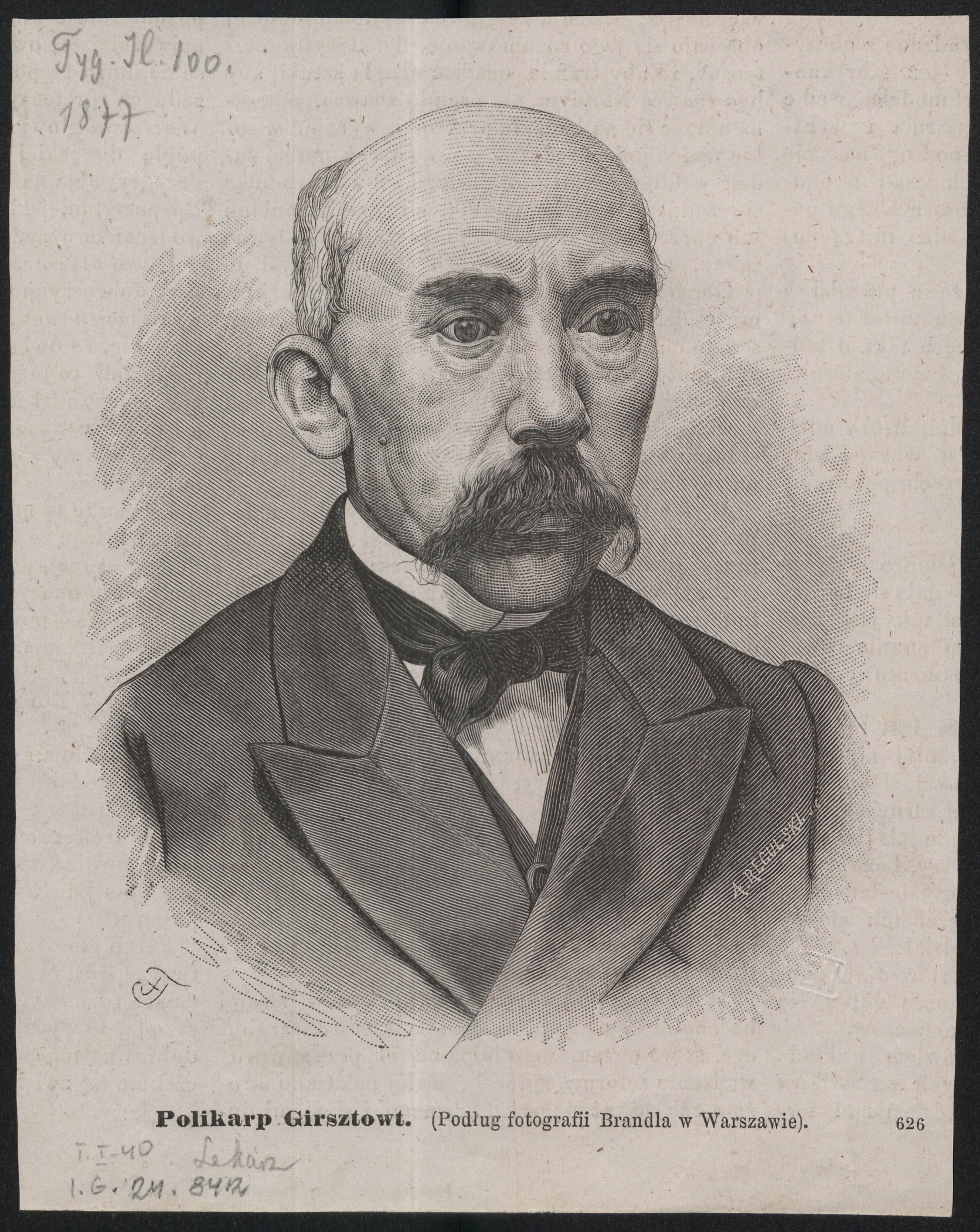 Polikarp Girsztowt, grafika podług fotografii K. Brandla, [1877 r.